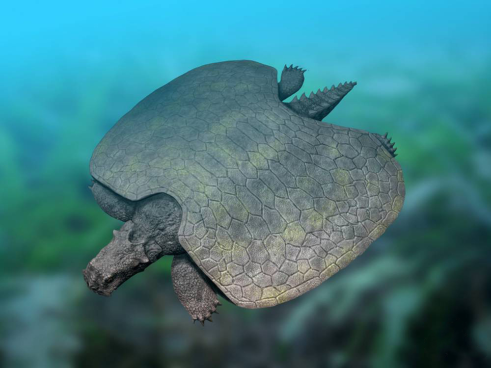 Life restoration of Henodus chelyops.